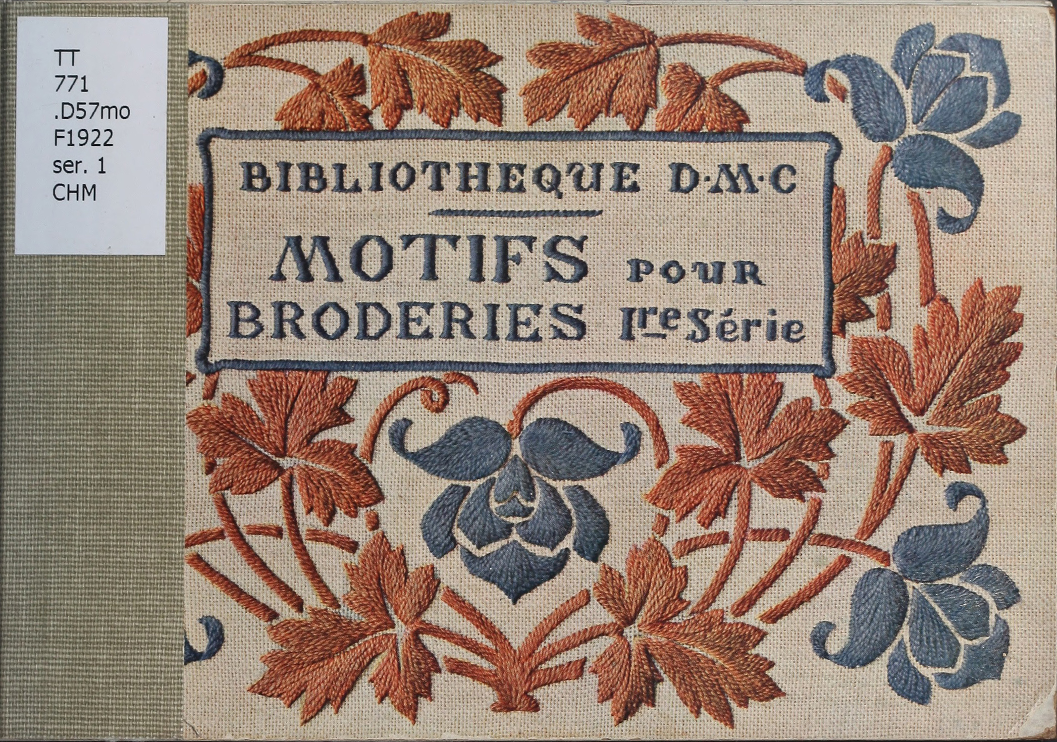 Page / illustration from Motifs pour broderies (1922). Book digitized from Smithsonian Libraries. Scan on Internet Archive